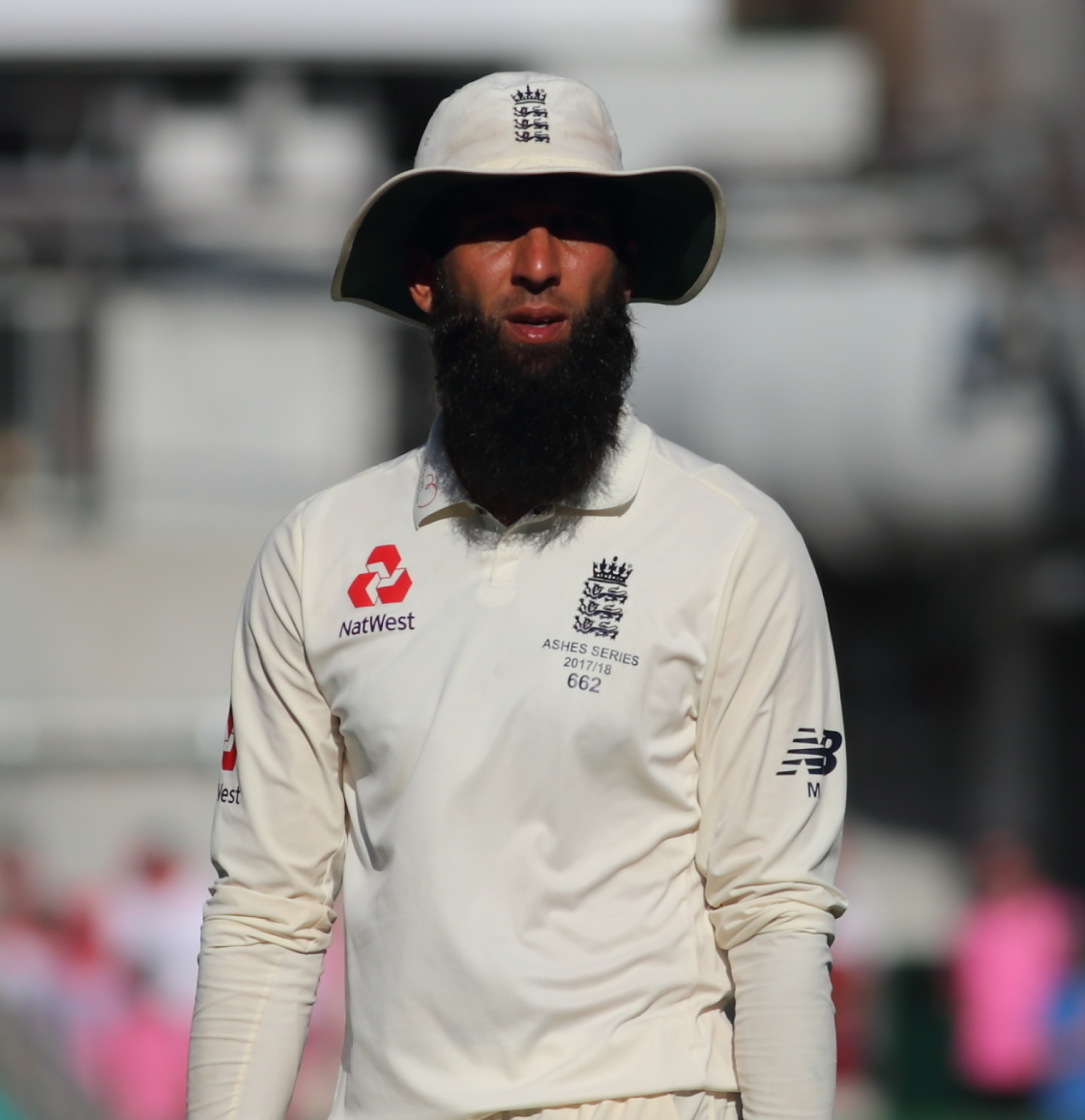 Moeen Ali during the third day of the 5th test of the 2017/2016 Ashes